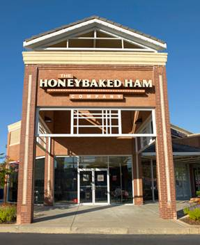 HoneyBaked Ham store in Sandy Springs, Georgia.